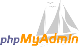 phpMyAdmin logo